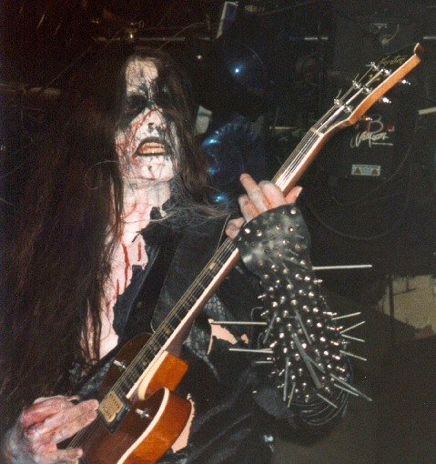 Gorgoroth live, Oslo 2001. Infernus.